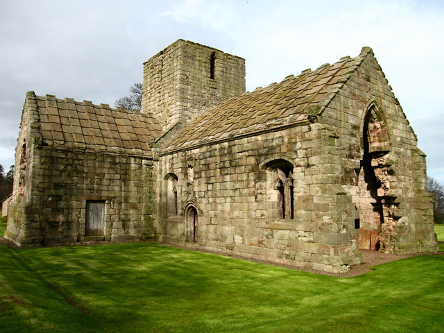 Dunglass Collegiate Church. Dunglass Collegiate Church lies just north of Cockburnspath. It was founded in 1444 and remained in use until the 1700s. It was then converted into a barn by the removing the large east window and the stonework below it to create a suitably-sized door.